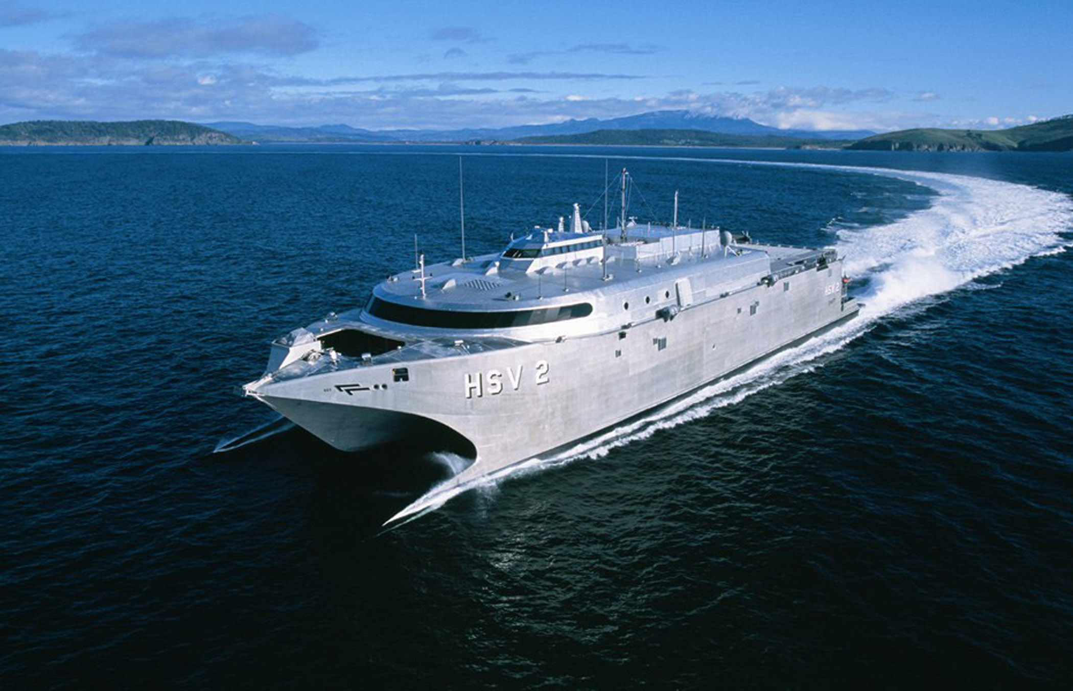 At sea with High Speed Vessel Two (HSV 2) Nov. 4, 2003 -- High Speed Vessel Two (HSV 2) Swift is participating in the West African Training Cruise (WATC) 2004, a regularly scheduled exercise, conducted since 1978, consisting of a series of bilateral interactions between the United States and individual African nations. Host nation participants in this year's WATC include Cameroon, Ghana, Gambia, Morocco, Senegal, Sierra Leone and South Africa. U.S. Navy photo. (RELEASED)